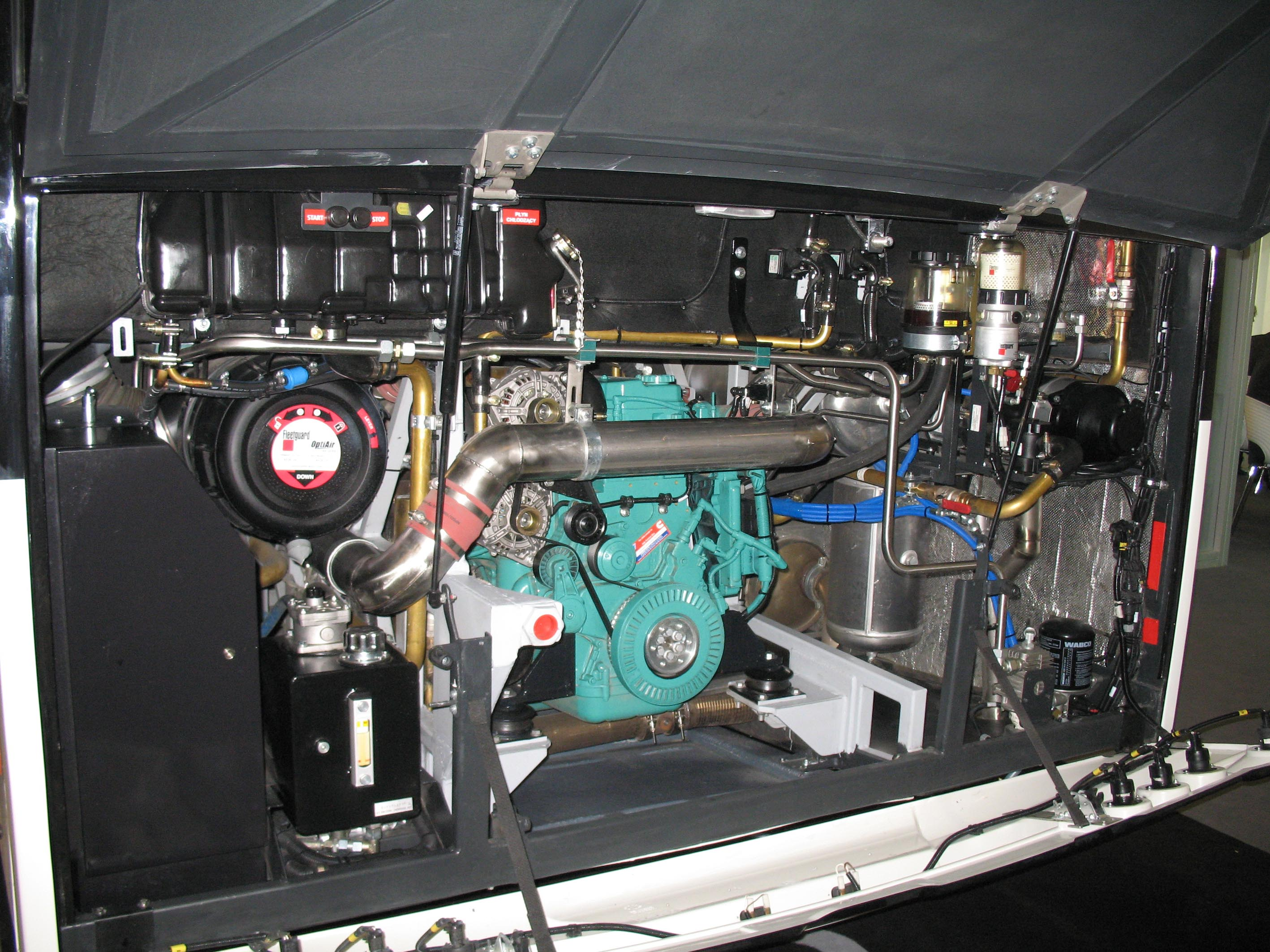 Solaris InterUrbino 12 intercity bus (prototype) in Kielce, Poland. Built 2009. Transexpo 2009. Cummins ISB6,7E5 300 diesel engine.